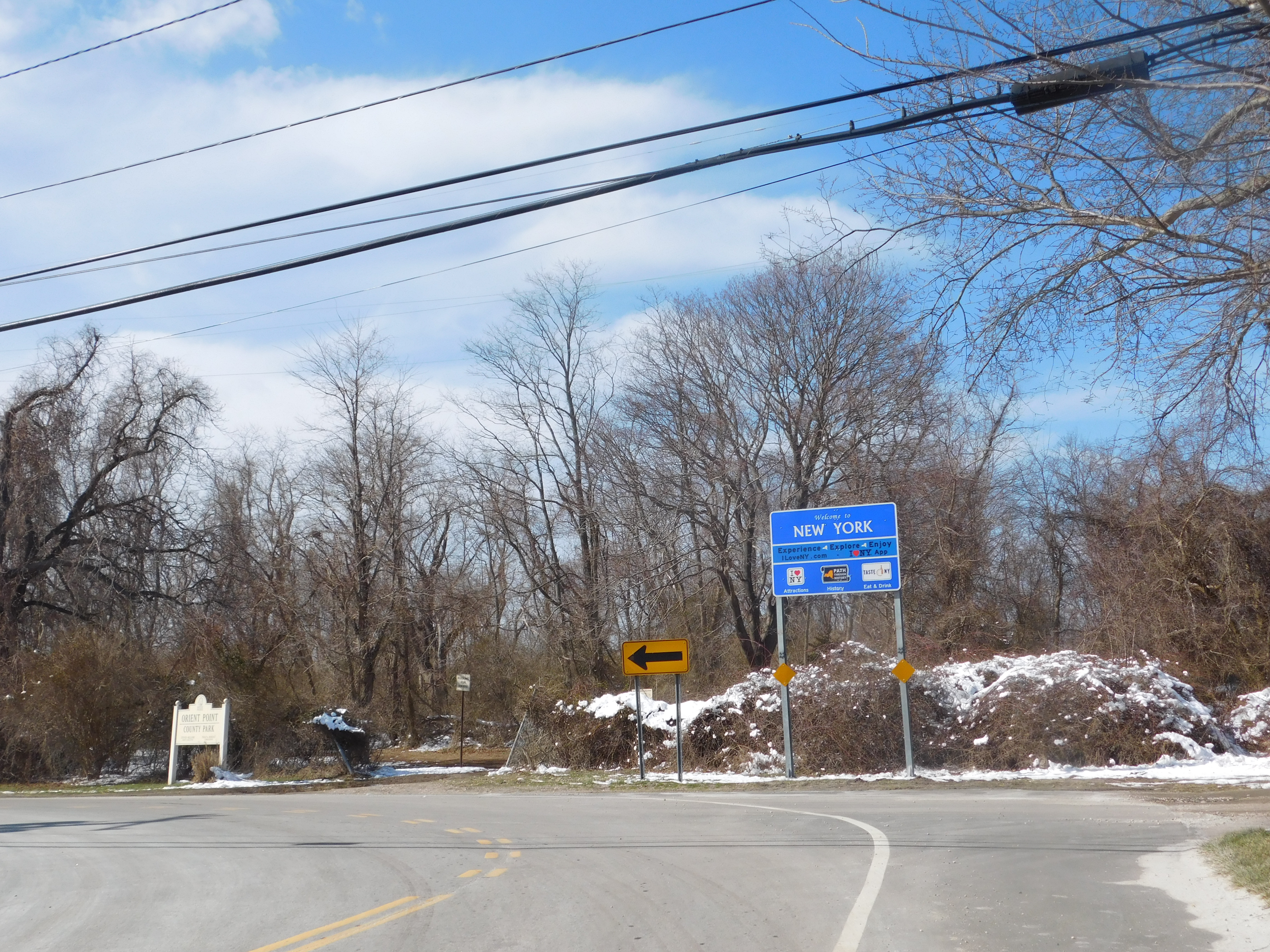 The beginning of NY 25 in Orient Point, New York.